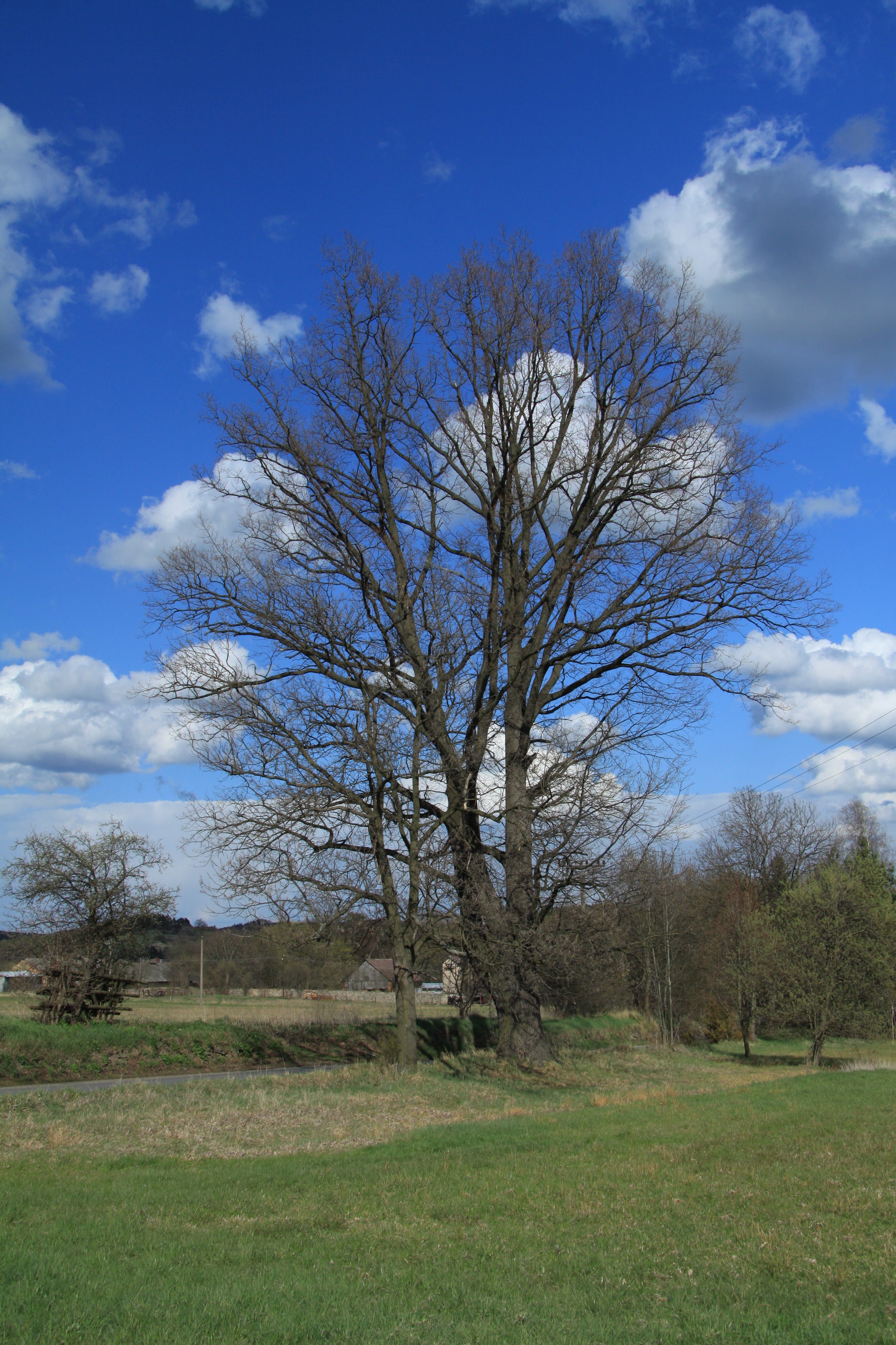 Famous trees "Duby u Smolotel" near Smolotely in Příbram District, Czech Republic - Google Maps - Google Earth